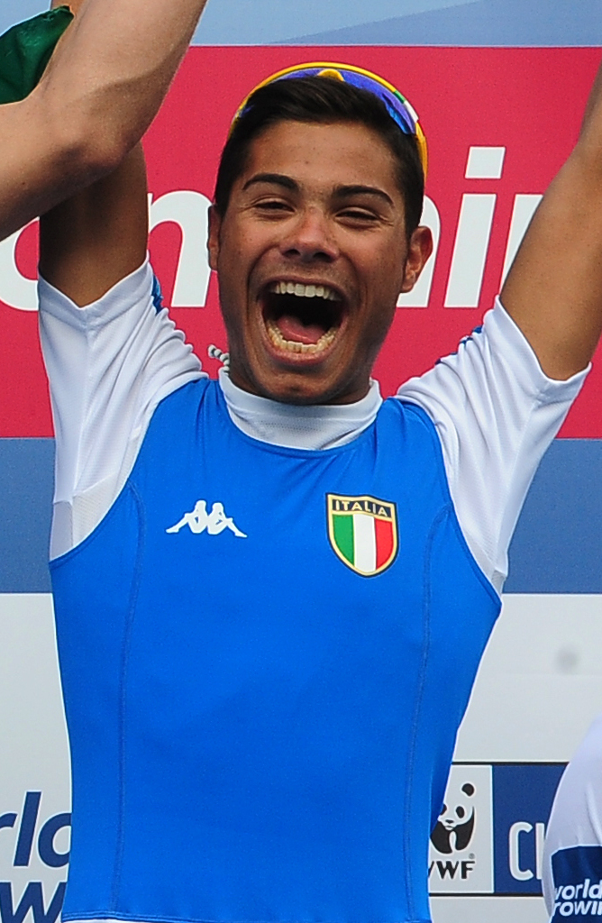 2013 Chungju World Rowing Championships 2013.08.24. – 09.01. -Related Articles- -English- World Rowing Championships kicks off in Chungju -中文- 2013忠州世界赛艇锦标赛开幕 - tiếng Việt- Giải Vô địch Đua thuyền Thế giới khai mạc tại Chungju - Deutsch- Ruder-Weltmeisterschaften in Chungju haben begonnen - 日本語 - 2013忠州世界ボート選手権大会、ローイング（Rowing)競技始まる - Russian - В Чхунжду начинается Чемпионат мира по академической гребле -Francais- Les championnats du monde d'aviron à Chungju sont ouverts ! -Arabic- بطولة العالم للتجديف تنطلق في تشونج جو Ministry of Culture, Sports and Tourism 2013 충주세계조정선수권대회 문화체육관광부